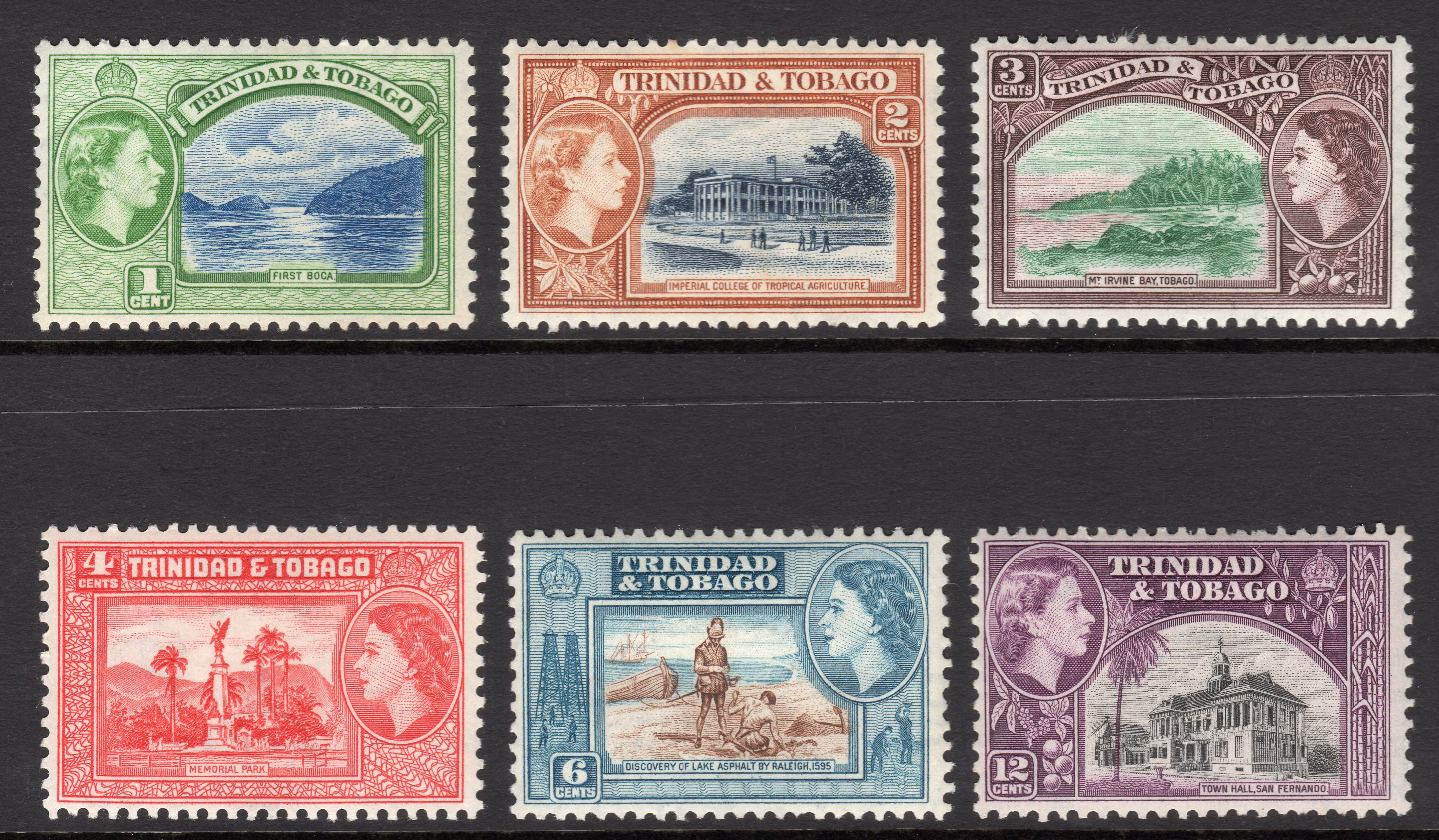 1953 stamps of Trinidad and Tobago.